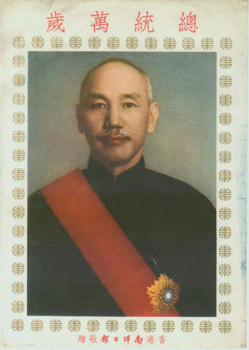 Long Live President Chiang Kai-shek中文（台灣）: 香港《南洋日報》贈送的給中華民國總統蔣中正祝壽的「總統萬歲」照片